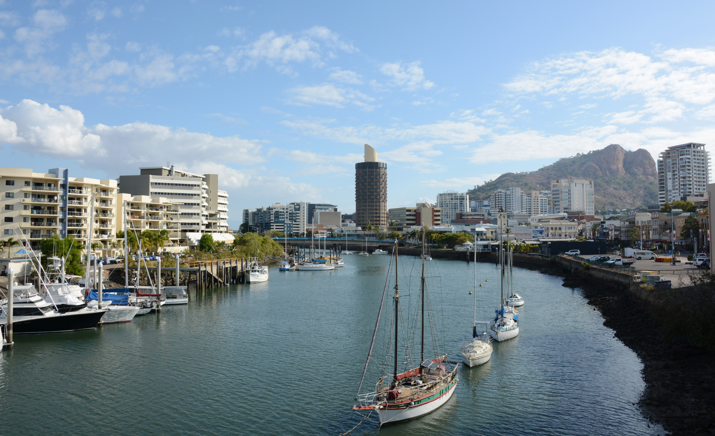 Ross River flowing through Townsville CBD with the Castle Hill in the background. The building seen in the middle of the picture is the iconic "Sugar Shaker", it is now Hotel Grand Chancellor. The ship seen in the front is the historic Defender, which sank in January 2016 at the same location.